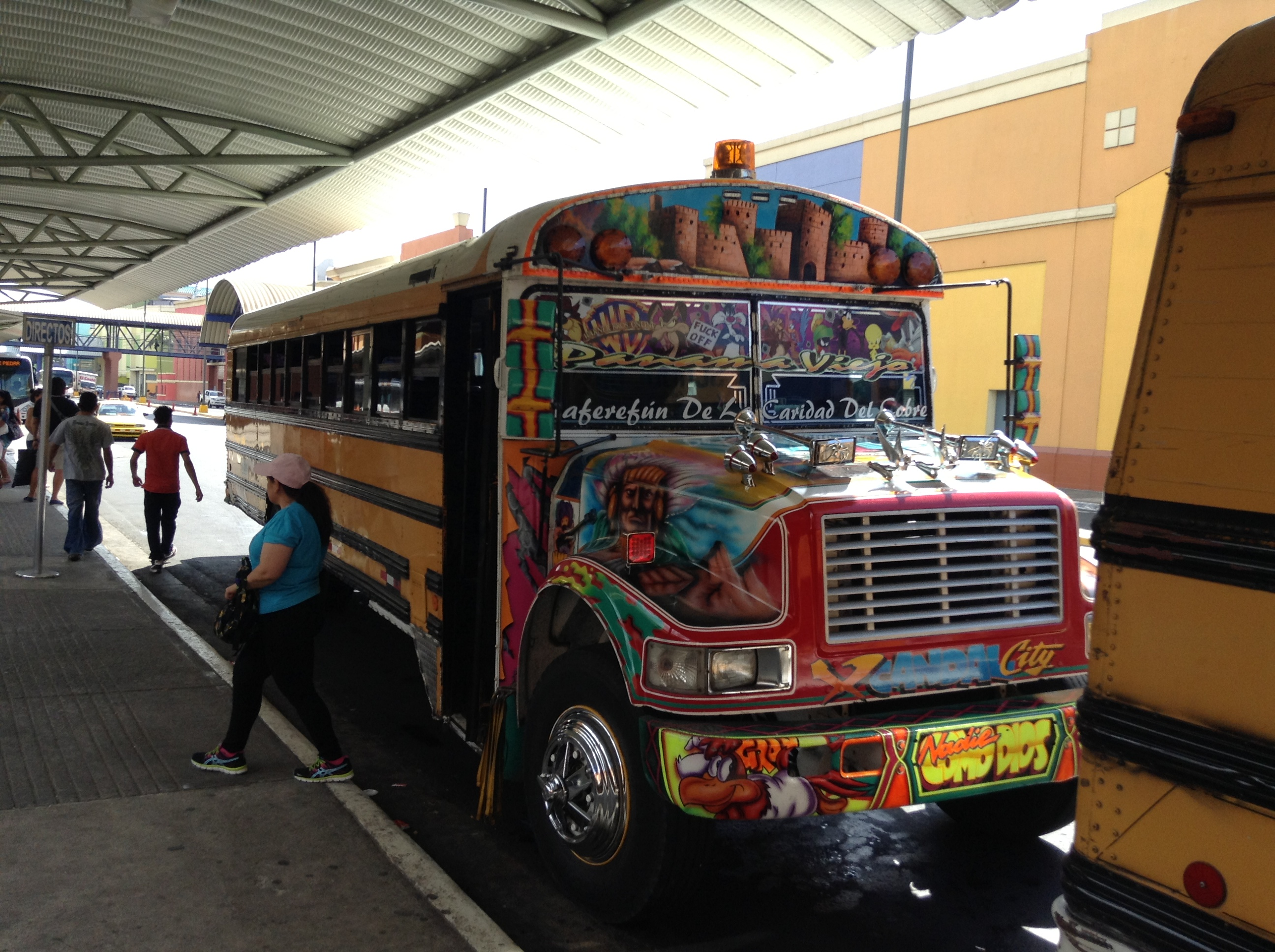 A typical red devil bus of Panama City.